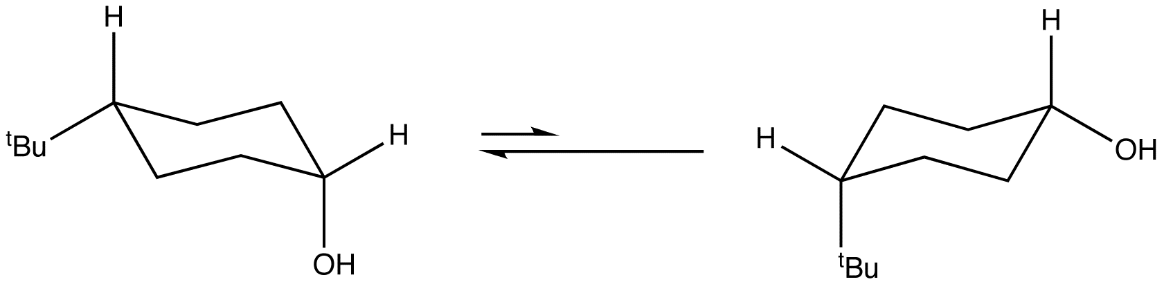 Chair flip of cis 4-tert butyl cyclohexanol, showing the major conformation to be where the tert butyl substituent is equatorial. This is predicted by the extremely large A-Value of the tert butyl group.